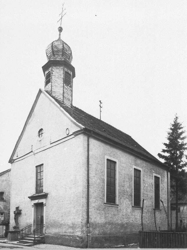 Kirchardt, katholische Kirche (1952) im Giebel datiert 1810, 1966 abgebrochen, West- und Südseite von Südwesten